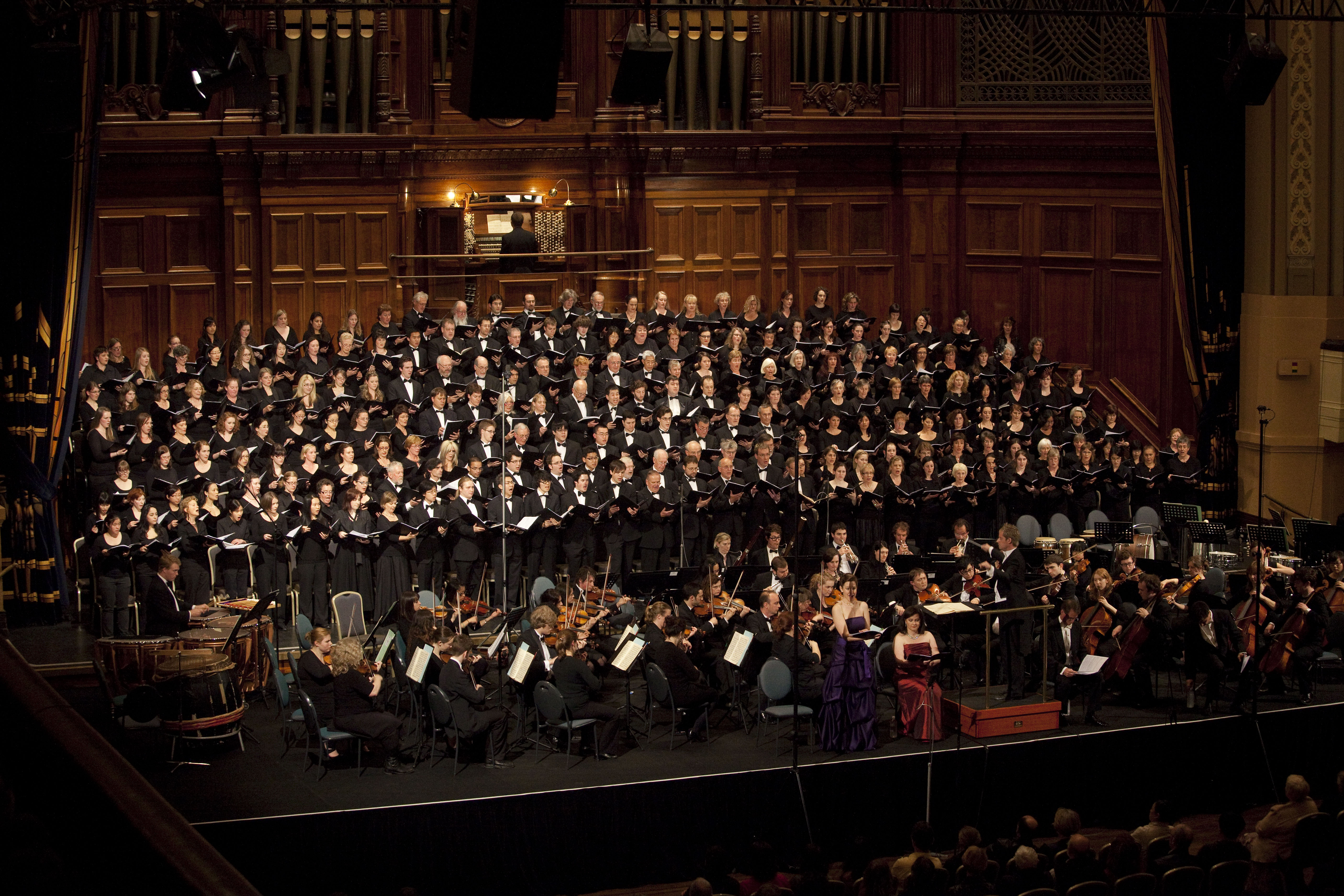 MUCS and RMP in concert, conducted by Andrew Wailes